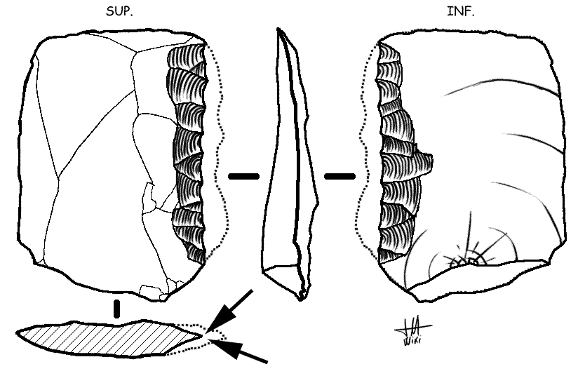 Bifacial removals for retouch